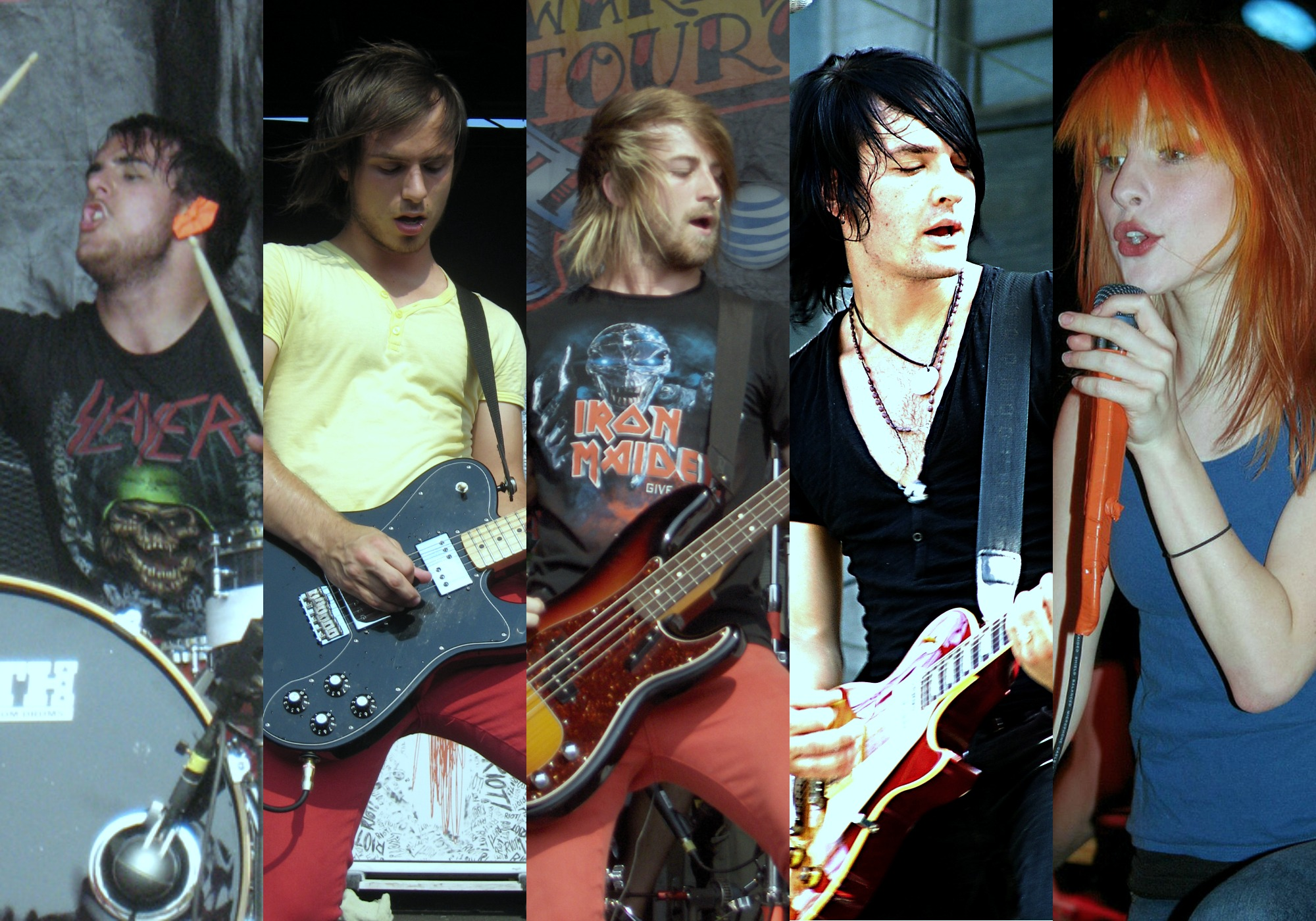 All original Paramore members.